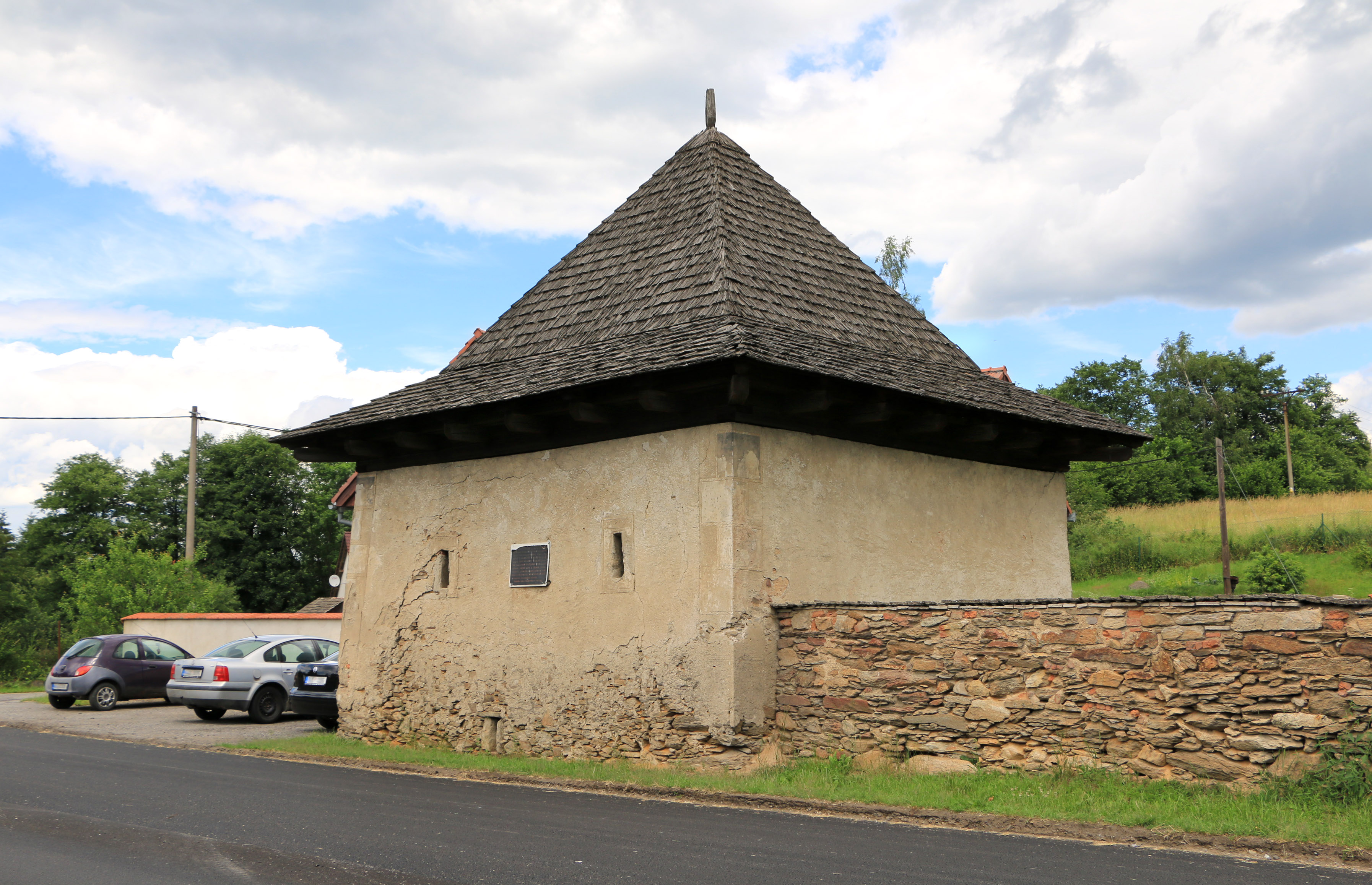 Protected granary in Prostředkovice, part of Suchá, Czech Republic.